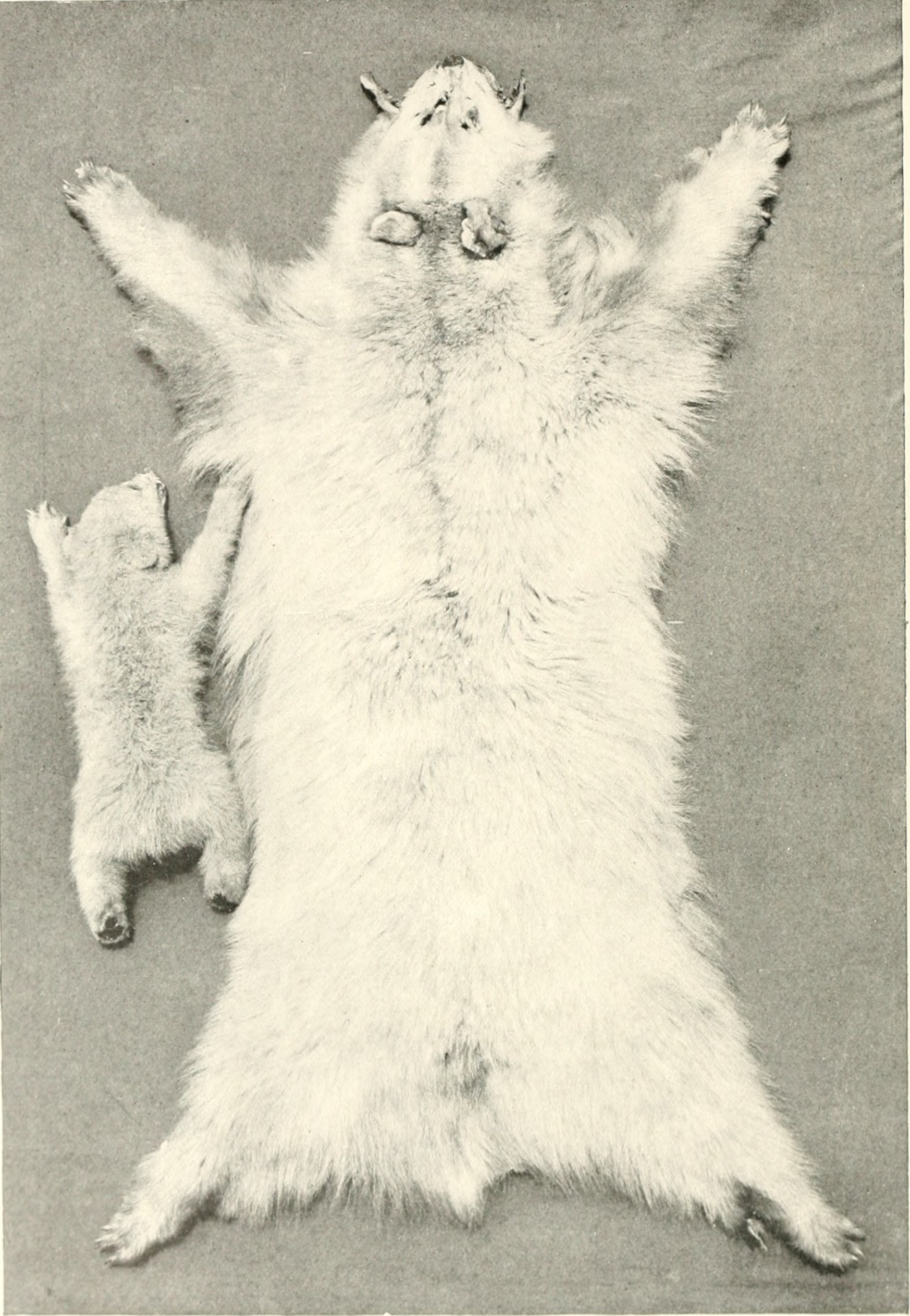 Title: Annual report of the New York Zoological Society Identifier: annualreportofne09newyuoft Year: 1897- (1890s) Authors: New York Zoological Society Subjects: New York Zoological Society; Zoology Publisher: New York : New York Zoological Society Text Appearing Before Image: ' Text Appearing After Image: ; Skin of an inland white bear (Ursus kermodely). No. 1 Type specimen I.